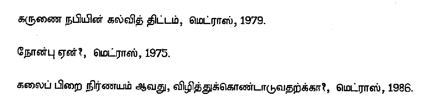 Tamil Journals of Muhammad Hamidullah in Tamil Language